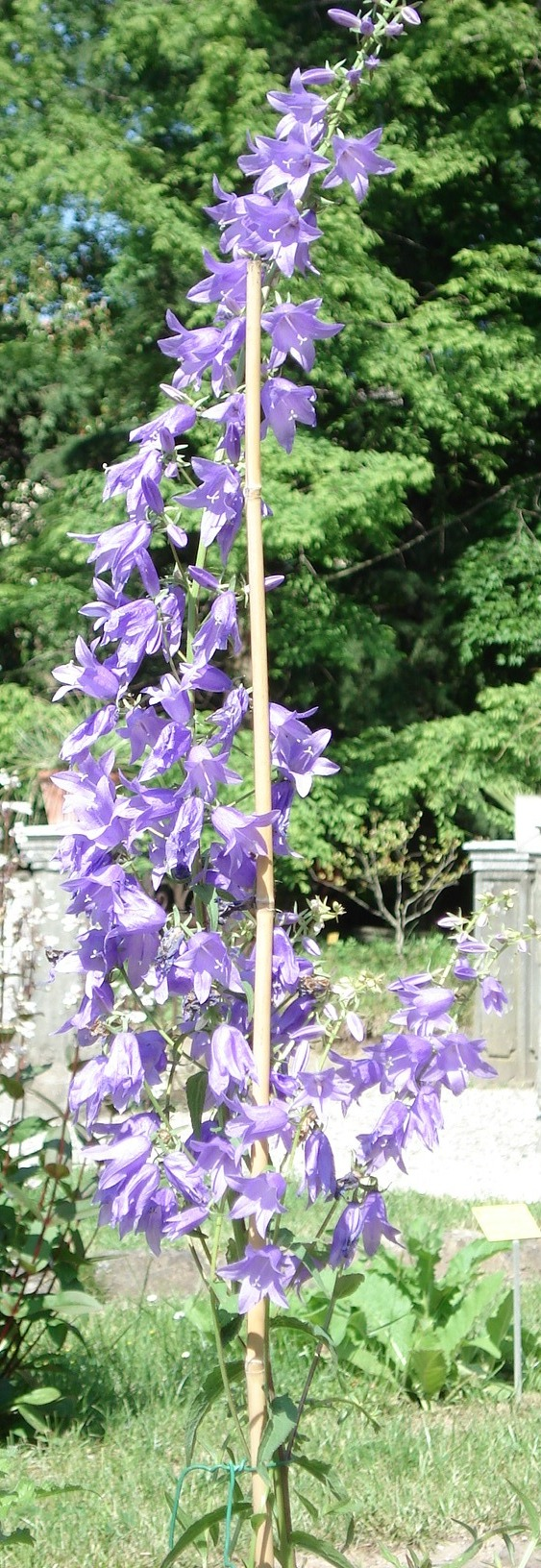 Campanula bononiensis - flowers